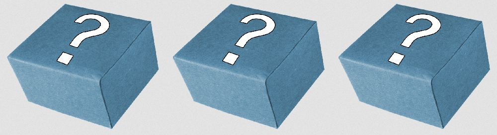 Three blue boxes with question marks on them.